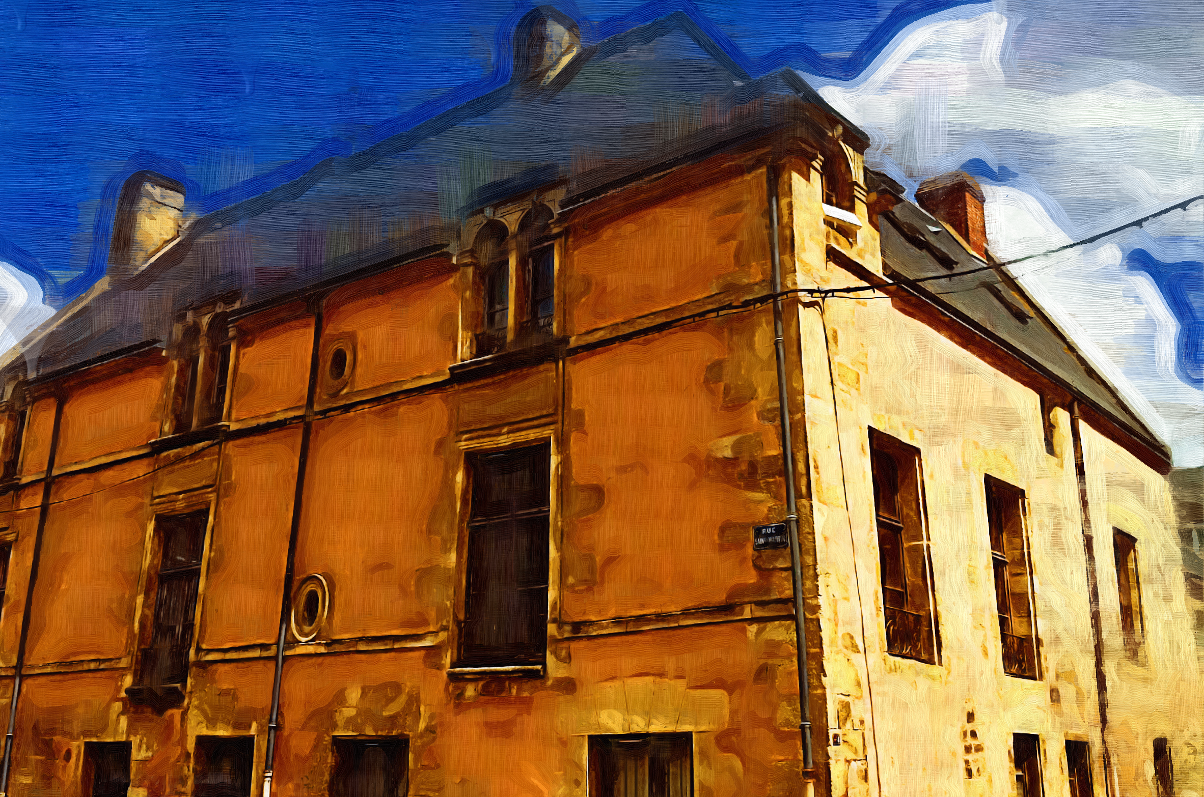 Hotel particulaire rue St.Martin